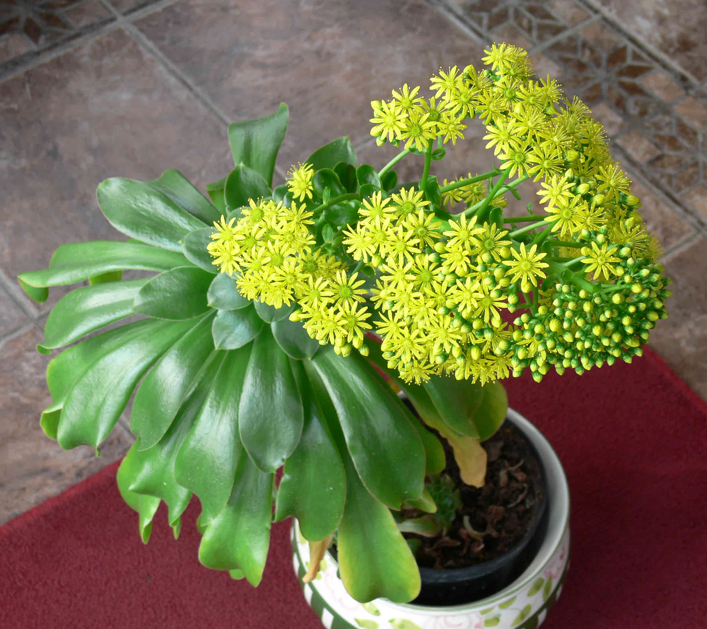 Flower head of Aeonium glutinosum